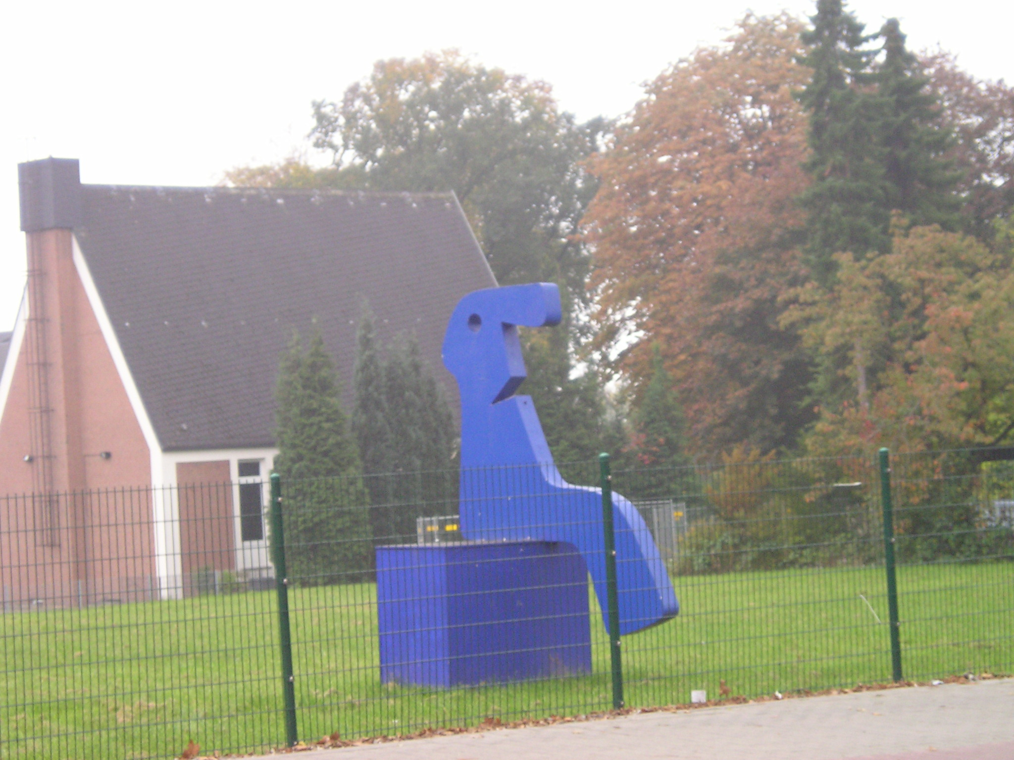 One of the Haans in Haan Rhineland/Germany